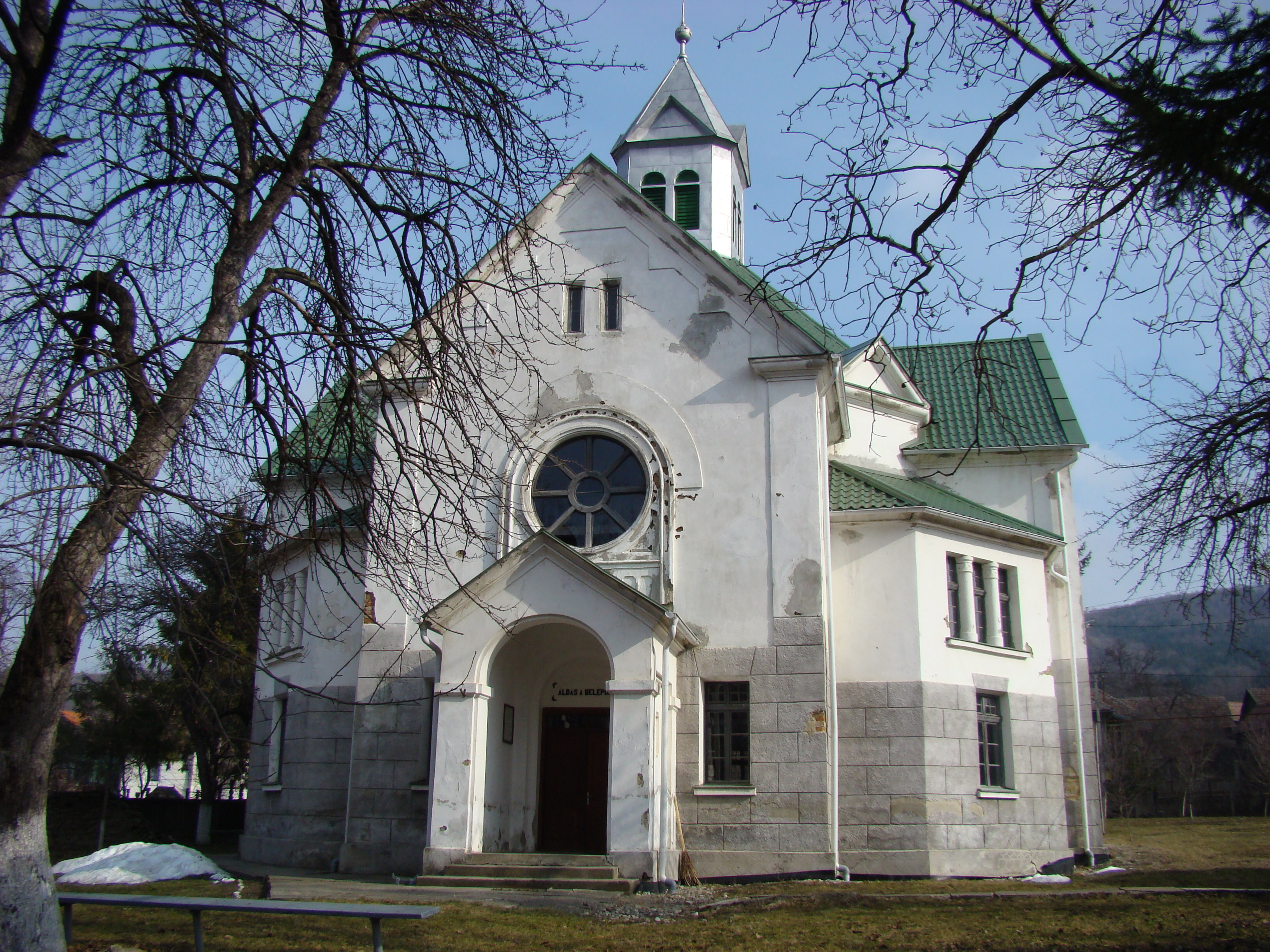 Deleni, Mureș county, Romania